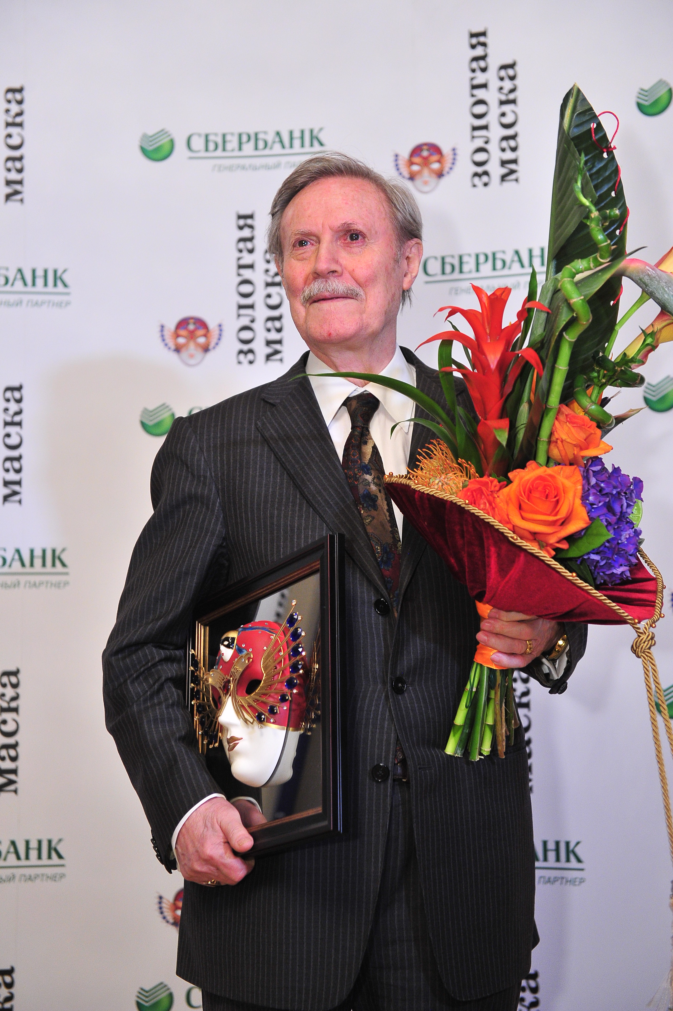 Golden Mask Award